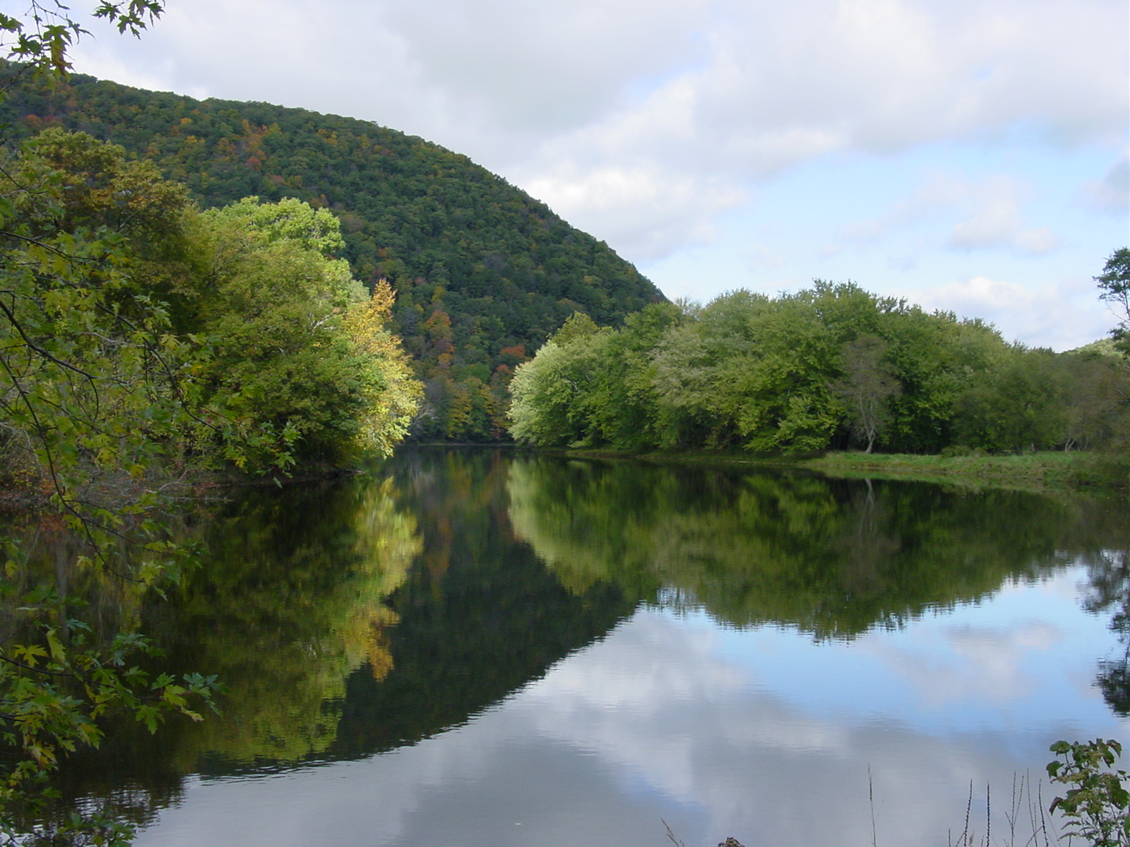 Housatonic River, Kent, Connecticut.